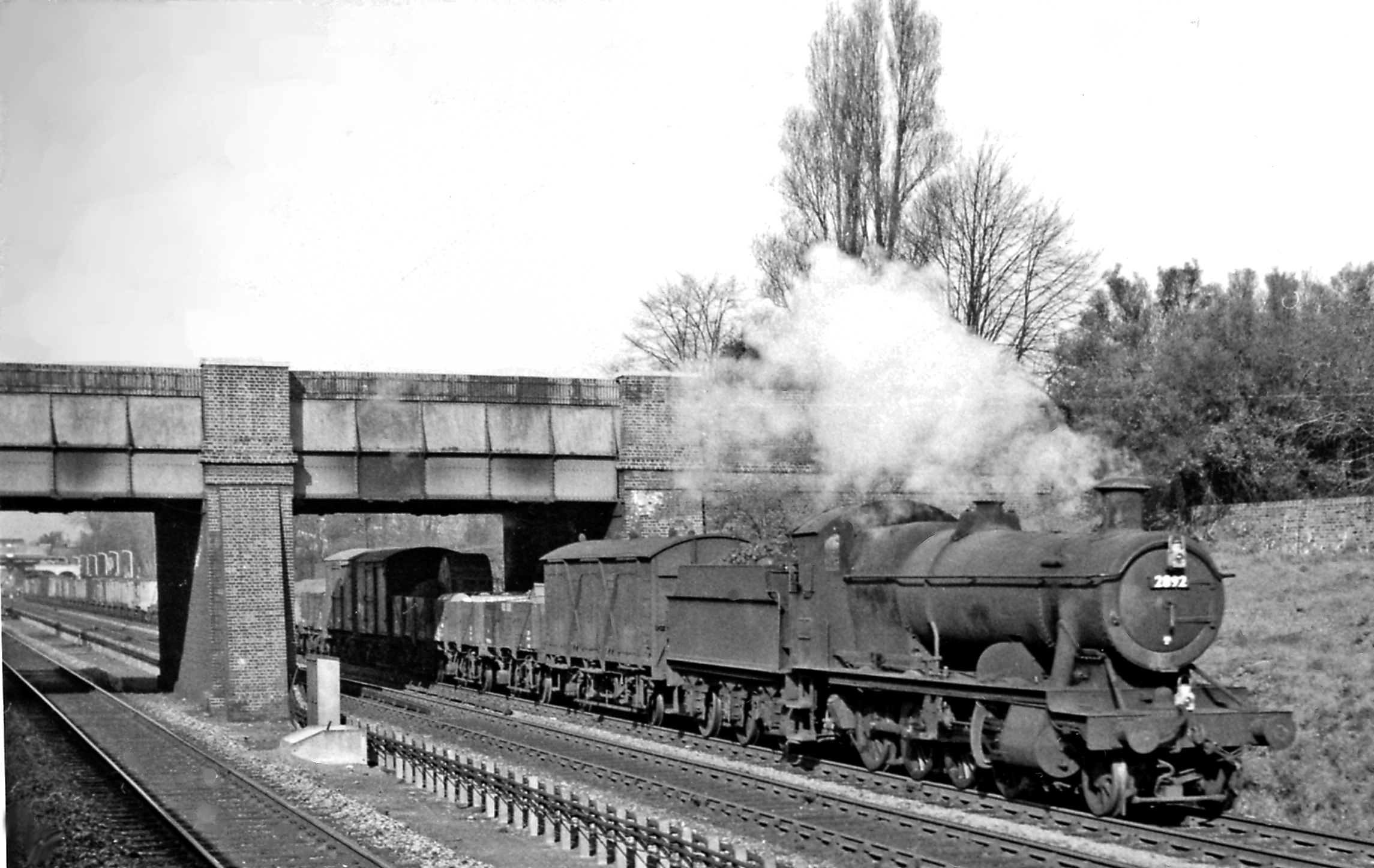 Up GW main line freight near West Ealing View westward, towards West Ealing, Reading etc. Seen from a Down express, the Class H freight on the Slow line is near Longfield Avenue Box, headed by Collett '2884' class 2-8-0 No. 2892 (built 4/38, withdrawn 5/63).